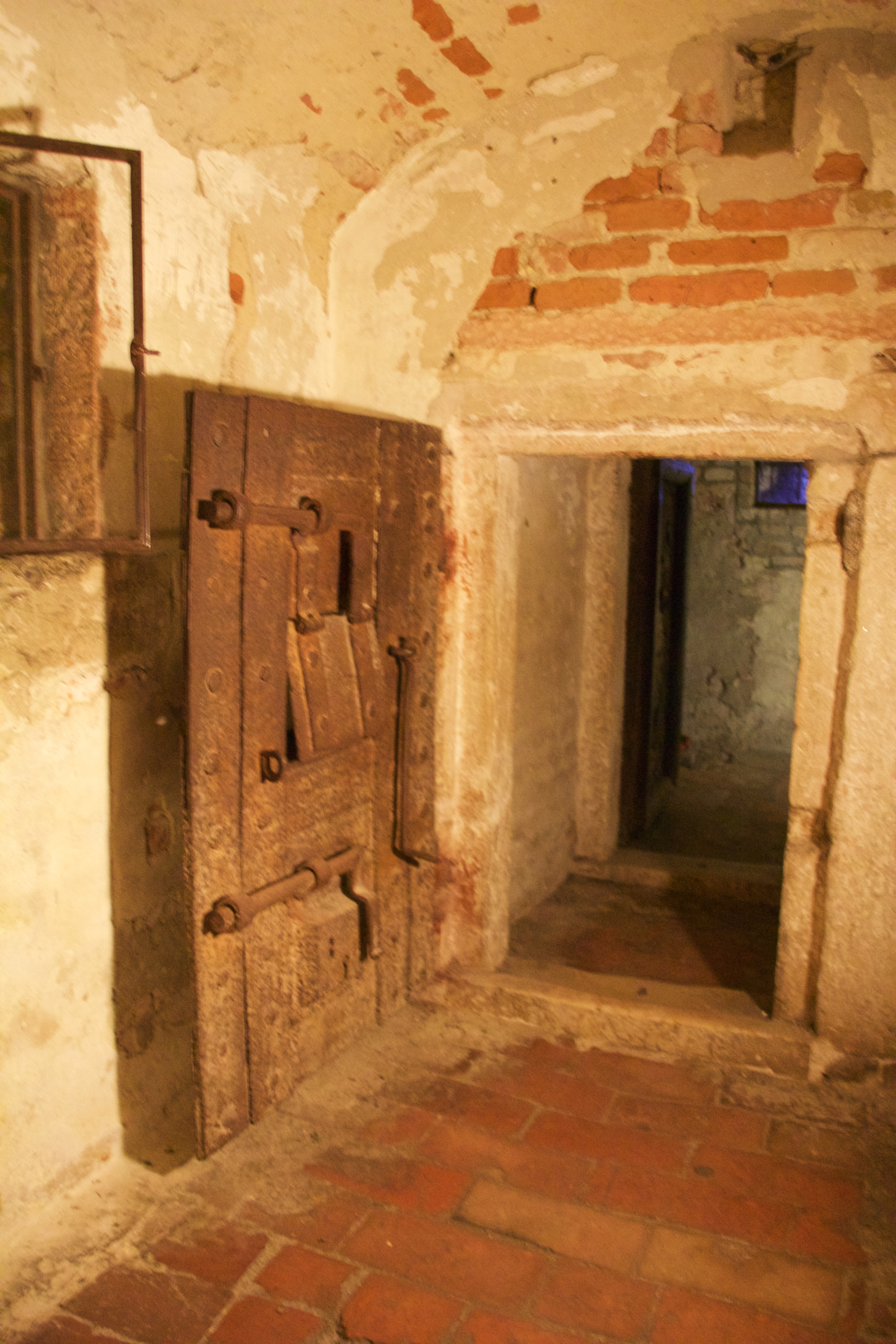 Castello Estense, Ferrara, Italy.